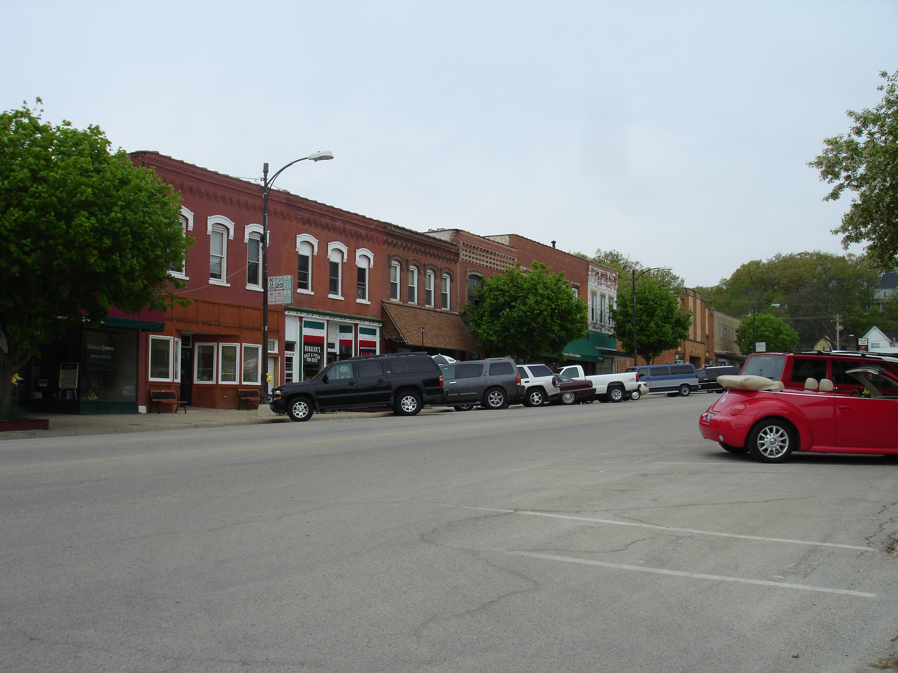 Buildings in downtown Marseilles, Illinois, USA